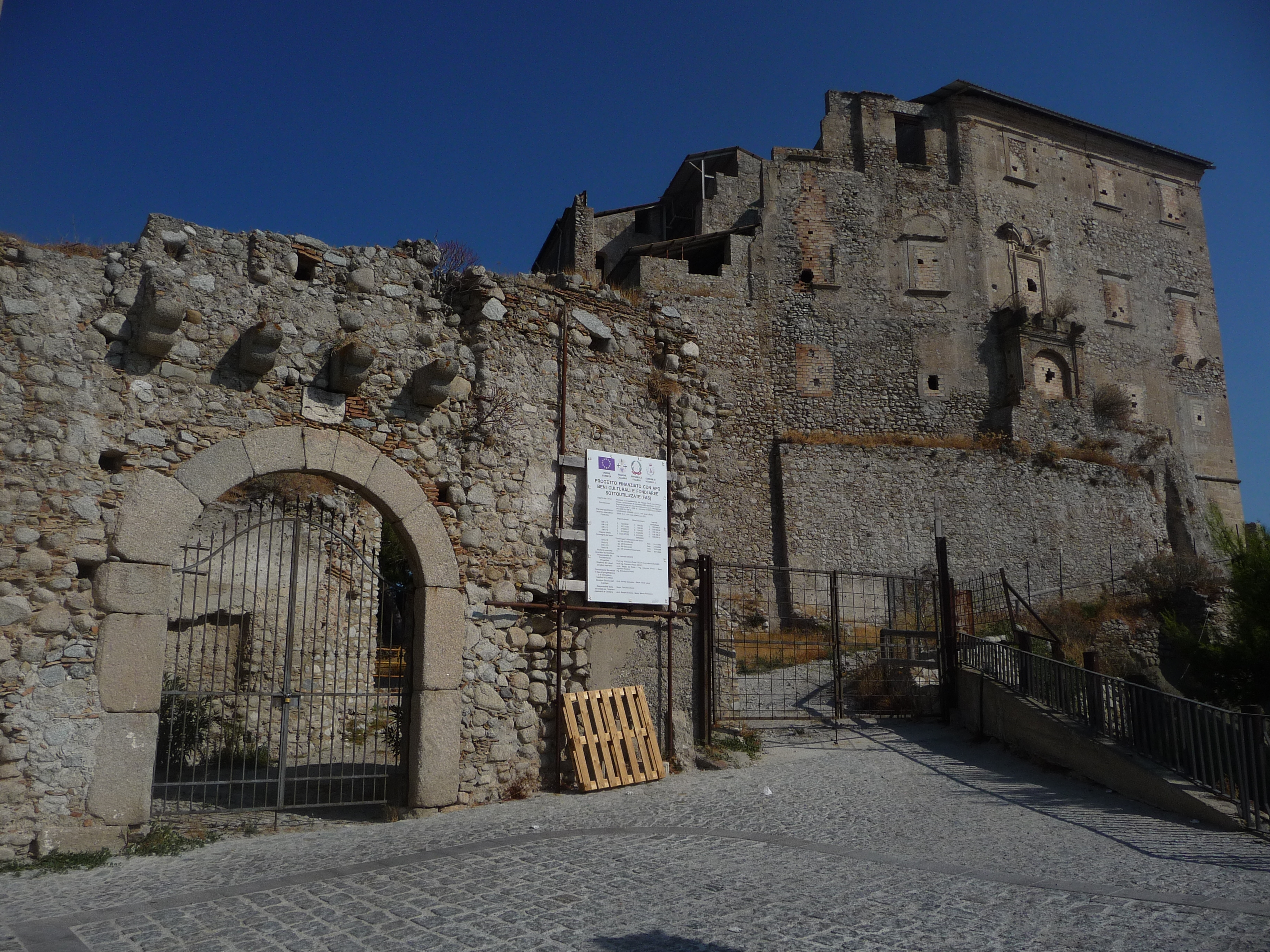 Carafa's Palace of Roccella Jonica (Italy)